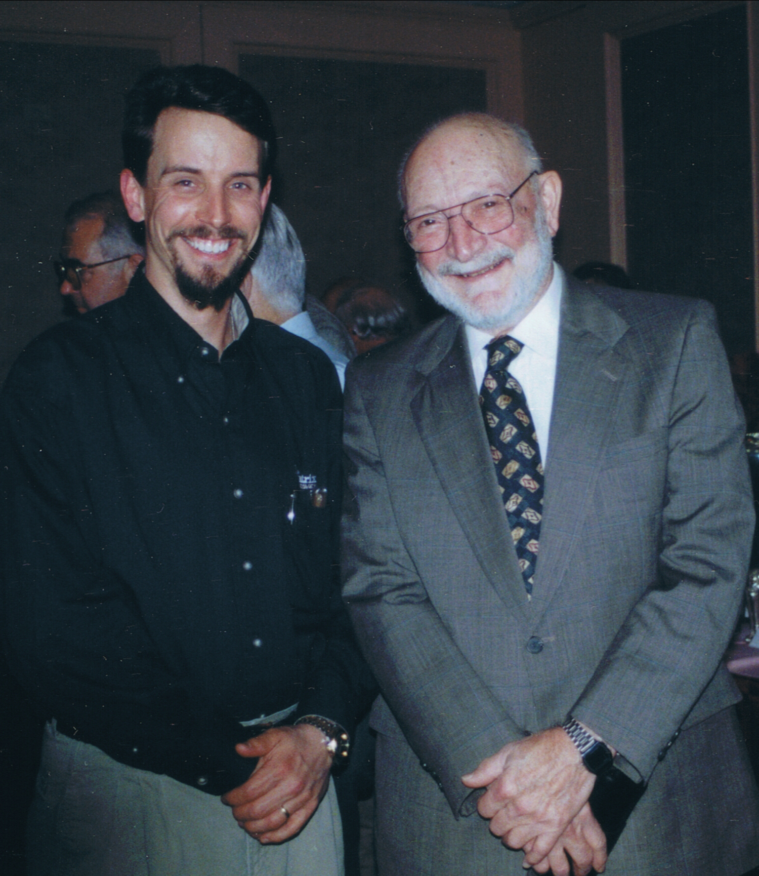 Audio engineer Charlie Hughes and his teacher, Dr. Eugene "Gene" Patronis, at the NSCA in 2000.